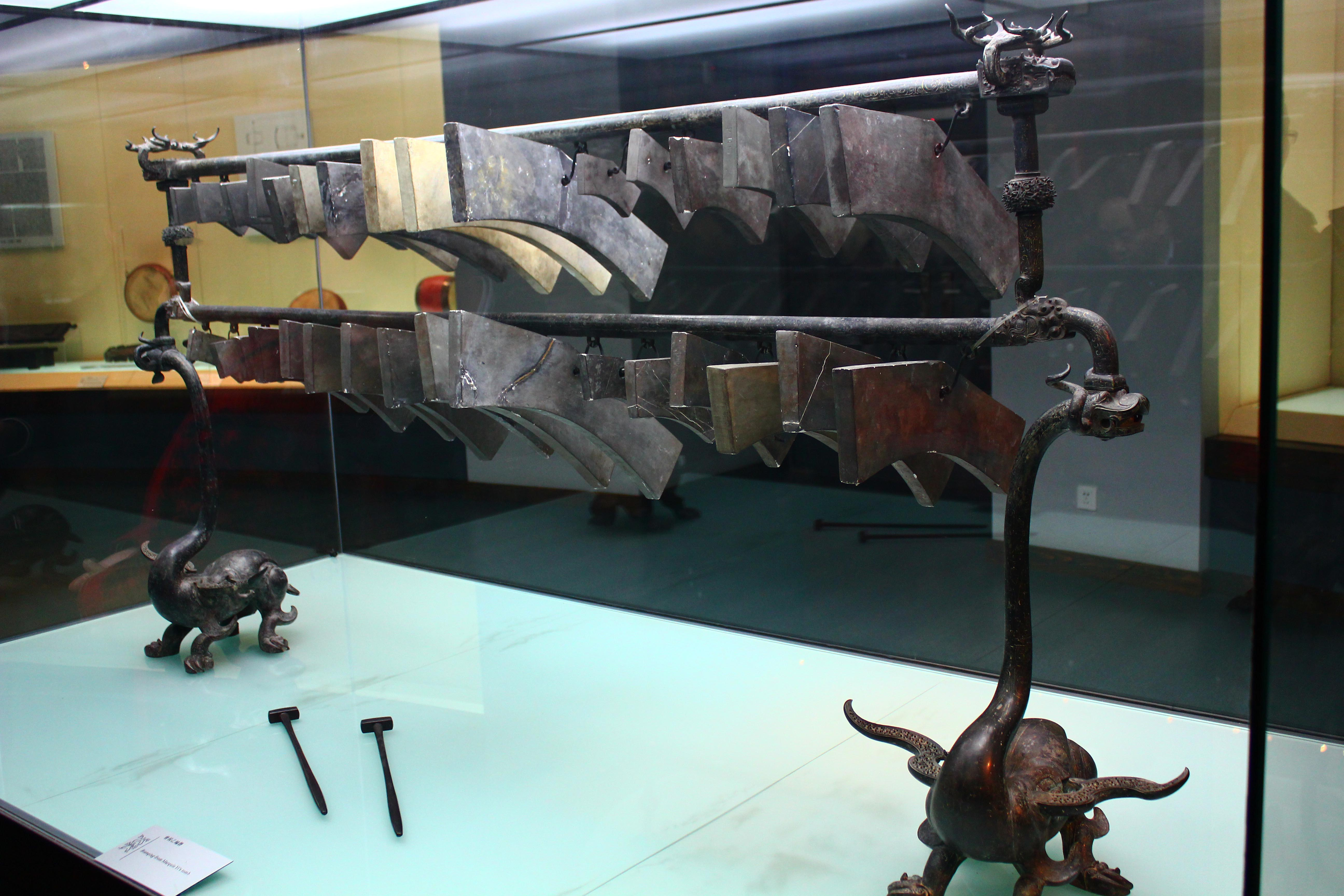 Bianqing from Marquis Yi's tomb, Hubei Provincial Museum